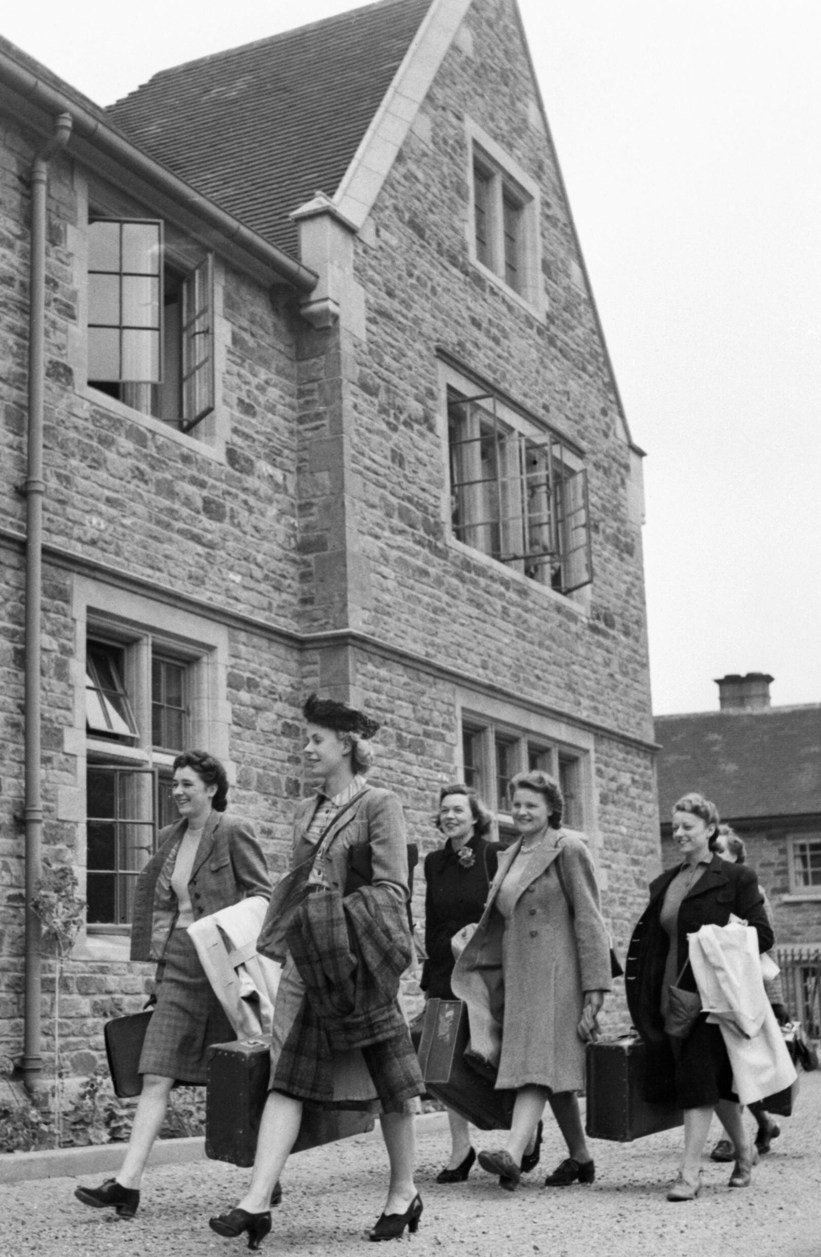 New recruits to the Women's Land Army arrive at the Northampton Institute of Agriculture at the start of four weeks training in 1942. Iris Joyce (nearest to the camera) and fellow new recruits to the Women's Land Army arrive at the Northampton Institute of Agriculture at the start of four weeks training, carrying suitcases. According to the original caption, Iris gets free board and lodging and 10 shillings personal allowance during training.